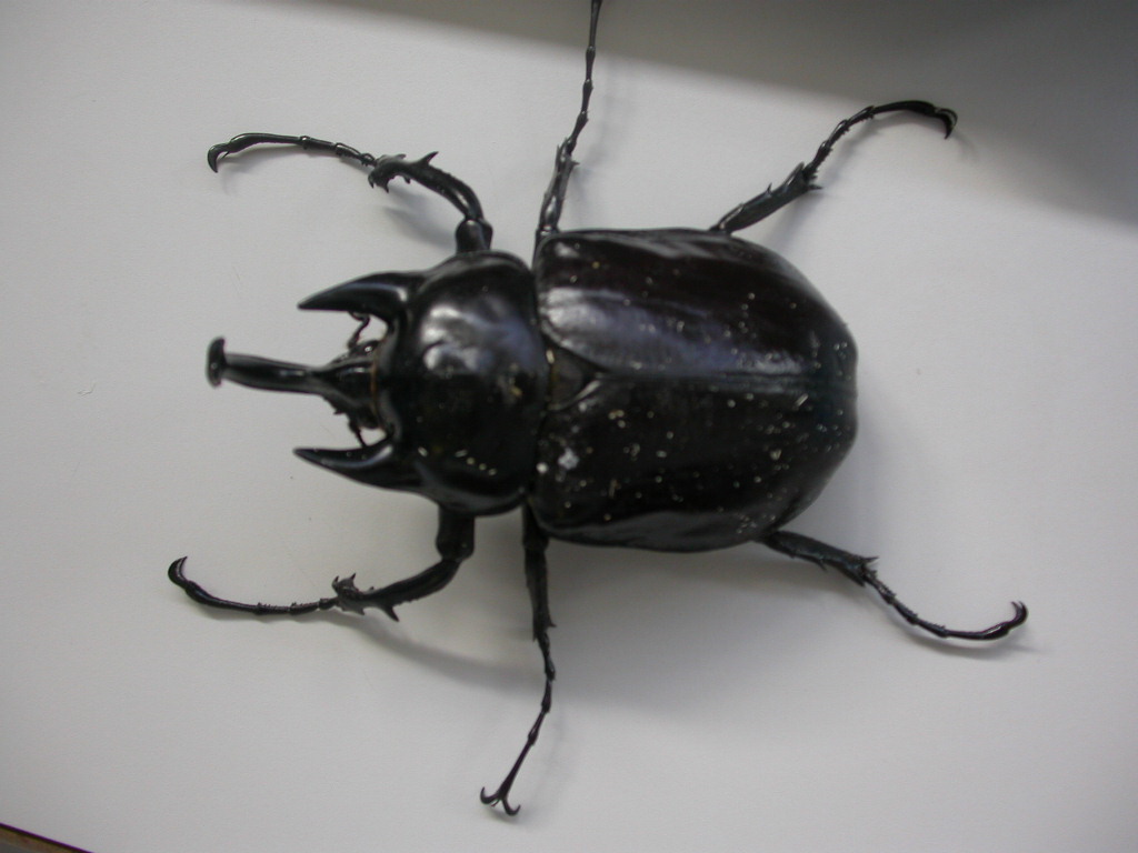 Megasoma actaeon-coléoptères-scarabaeidae Saint-Laurent-du-Maroni Guyane Française